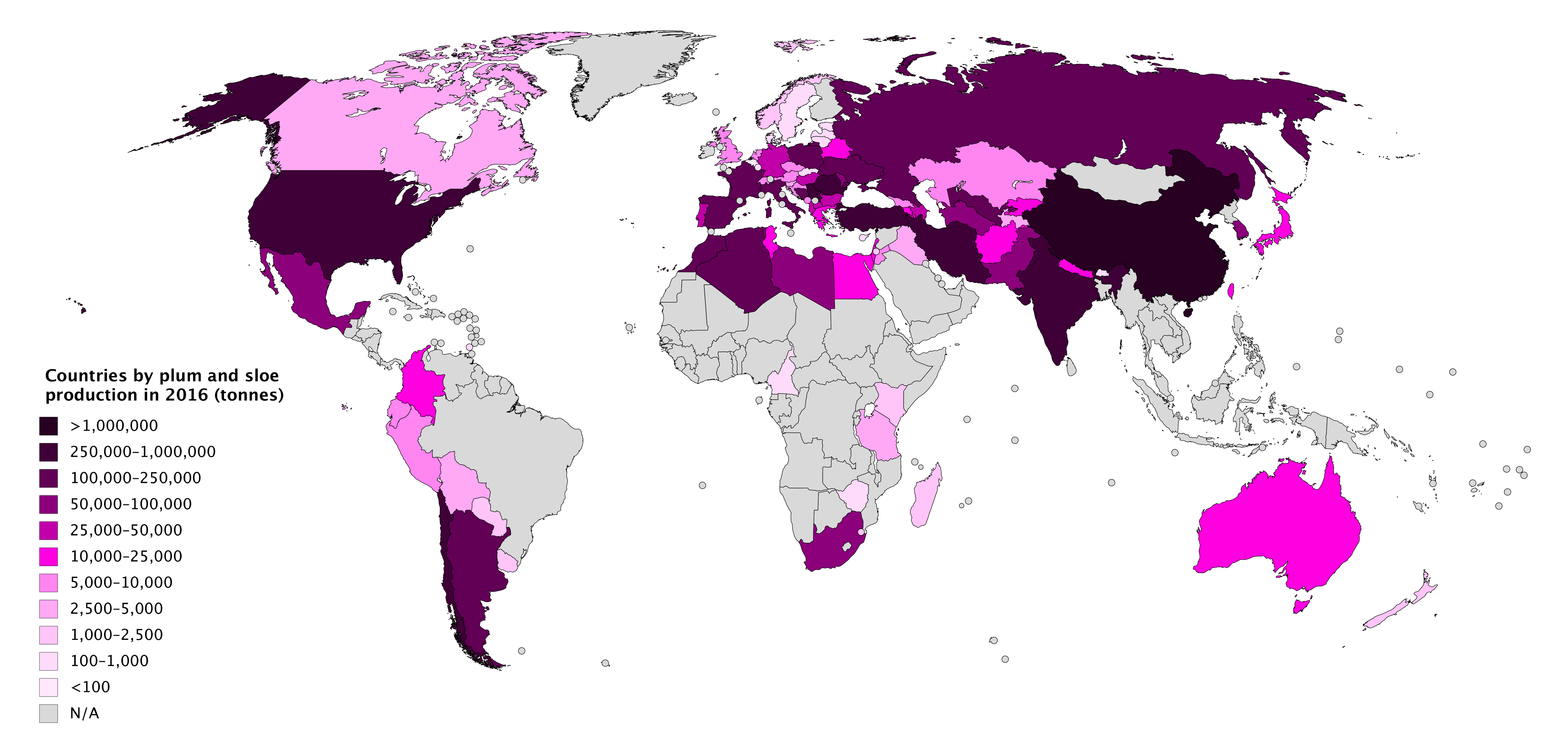 A choropleth map showing countries by plum and sloe production in tonnes, based on 2016 data from the Food and Agriculture Organization Corporate Statistical Database (FAOSTAT).